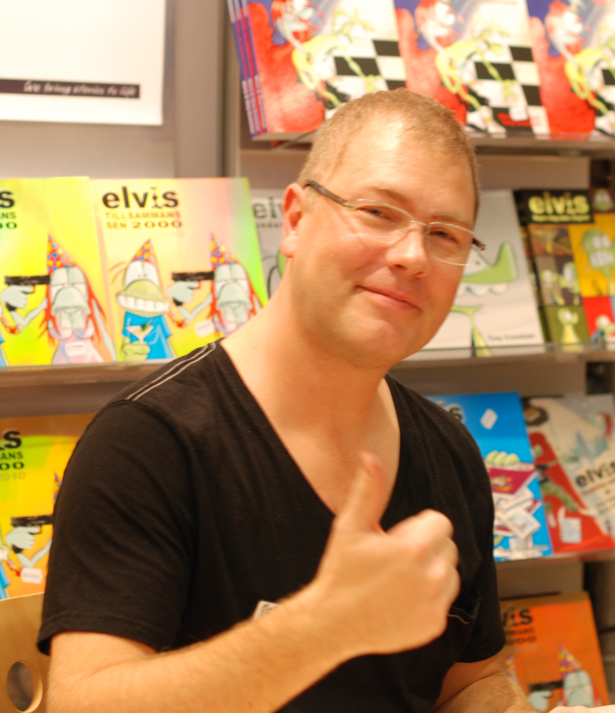 Swedish Cartoonist Tony Cronstam at the Göteborg Book Fair 2010